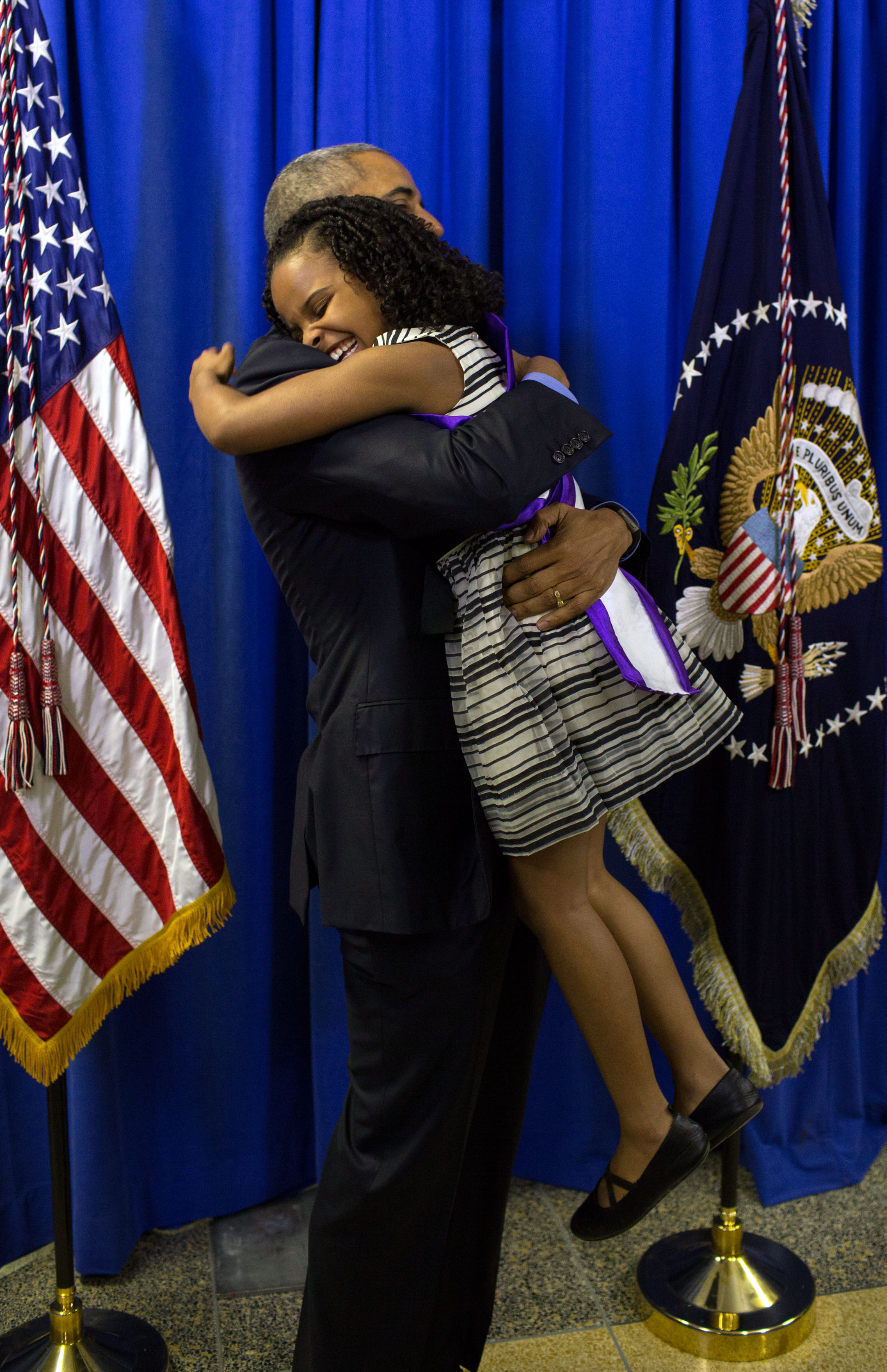 President Barack Obama hugs Mari Copeny, 8, backstage at Northwestern High School in Flint, Mich., May 4, 2016. Mari wrote a letter to the President about the Flint water crisis. (Official White House Photo by Pete Souza)